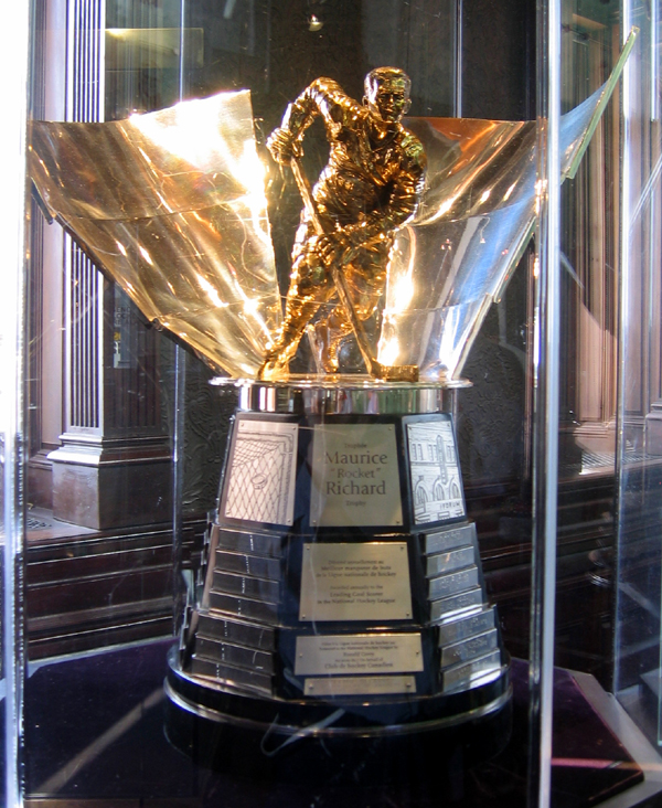 Maurice 'Rocket' Richard Trophy on display at the Hockey Hall of Fame in Toronto. The Trophy is awarded annually to the NHL's top goal scorer. Taken by Kmf164 on November 19, 2005.